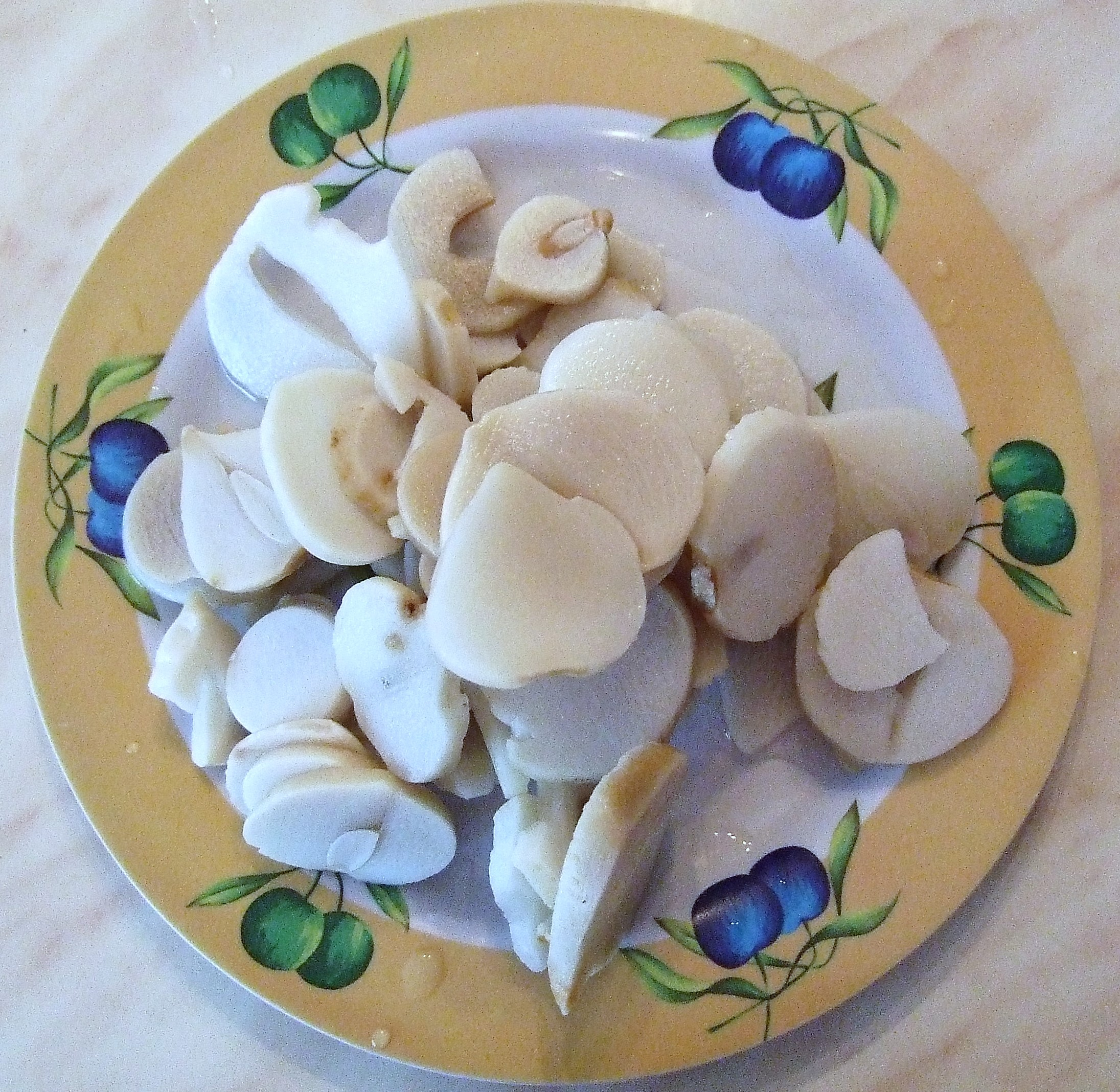 Shallots prepared to be used in yogurt